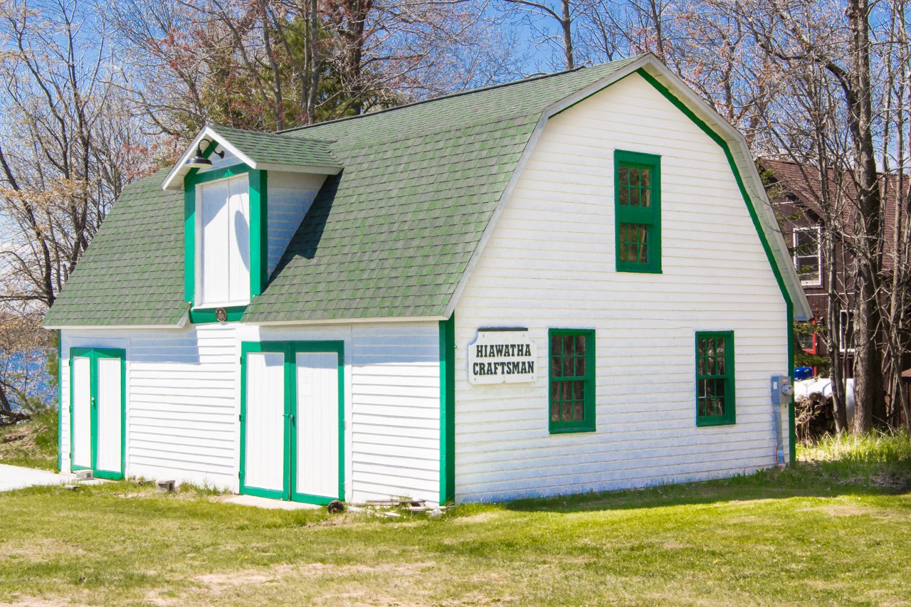 Hiawatha Sportsman Club Maintenace Building